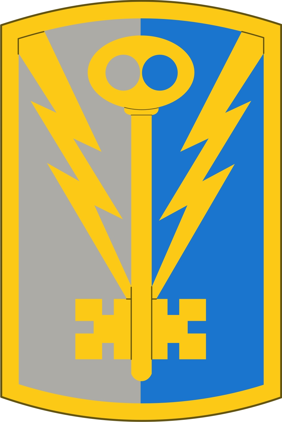 501st Military Intelligence Brigade SSI from [1]